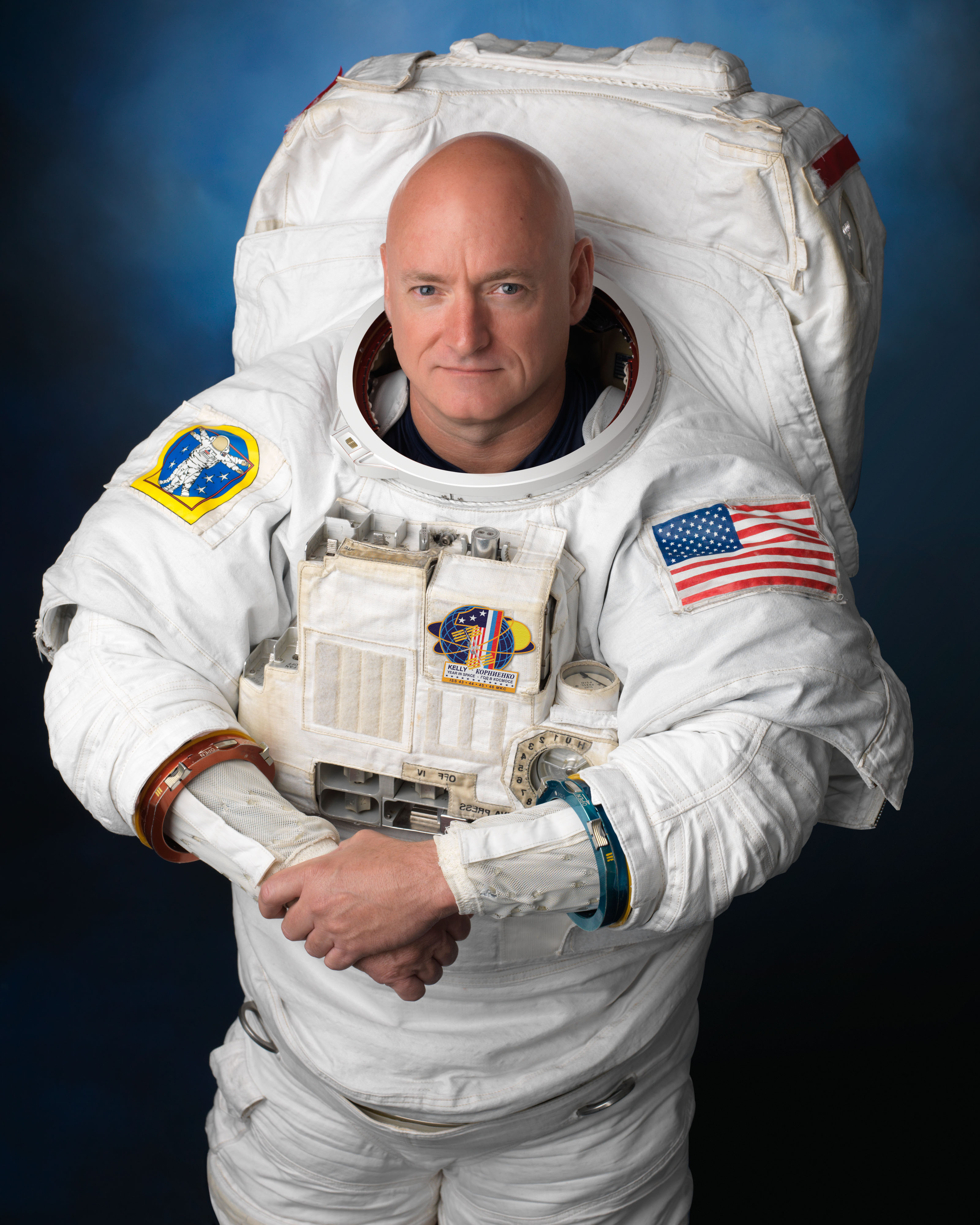 NASA astronaut Scott Kelly, wearing an Extravehicular Mobility Unit (EMU) spacesuit.